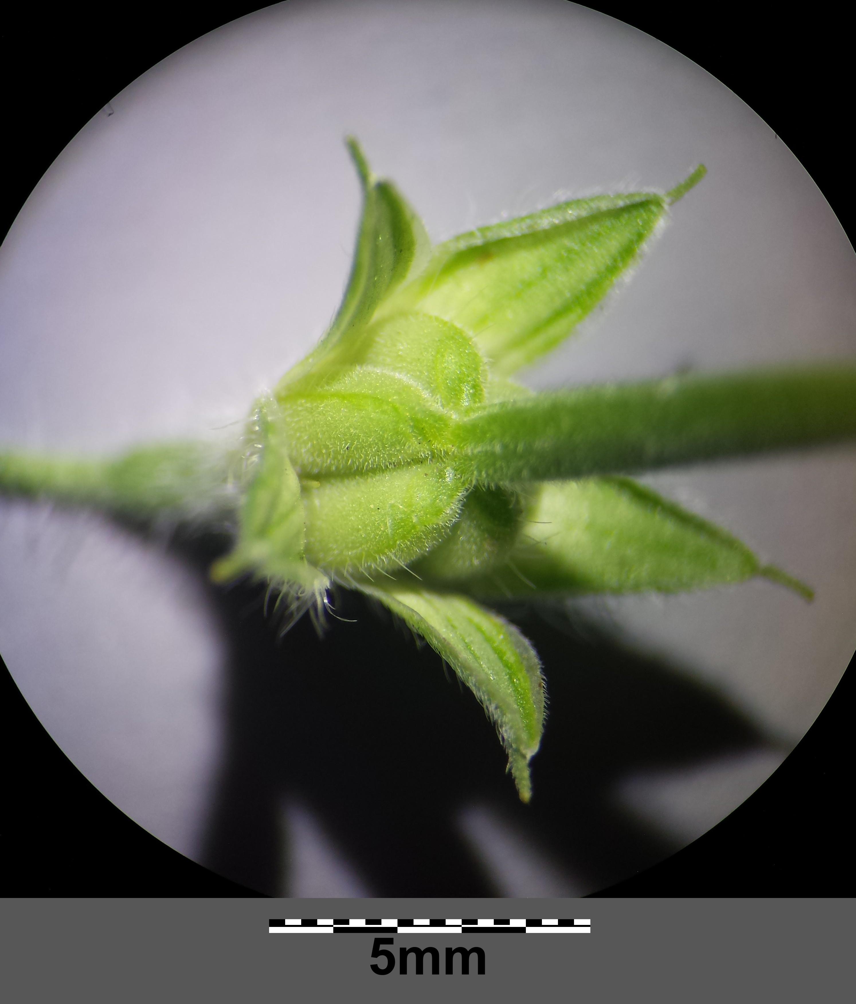 Mericarps with patent hairs Taxonym: Geranium sibiricum ss Fischer et al. EfÖLS 2008 ISBN 978-3-85474-187-9 Location: Schwarzlackenau, Vienna-Floridsdorf - ca. 160 m a.s.l. Habitat: wayside / border of a shrubbery